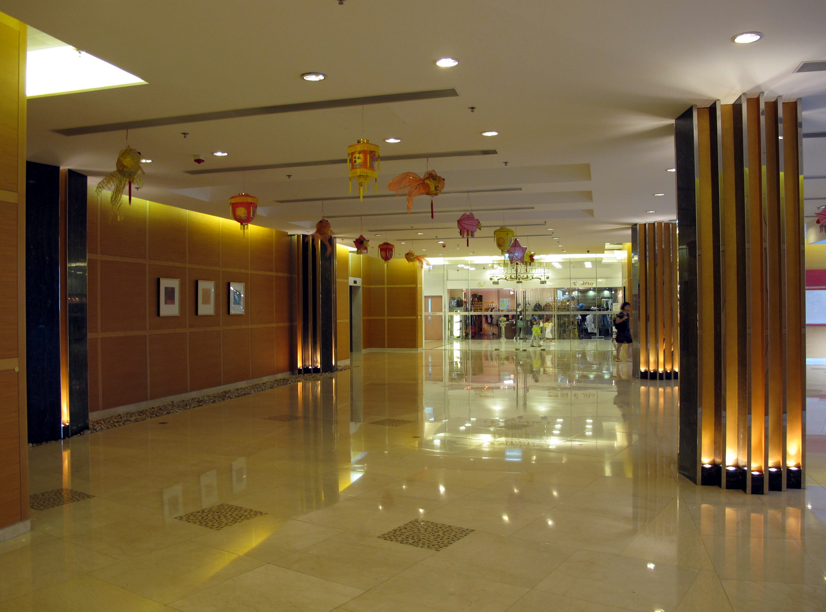 Tseung Kwan O Plaza Residentional Lobby